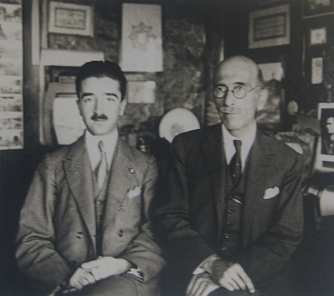 Dr. Rifat Osman ve Prof. Dr. Süheyl Ünver